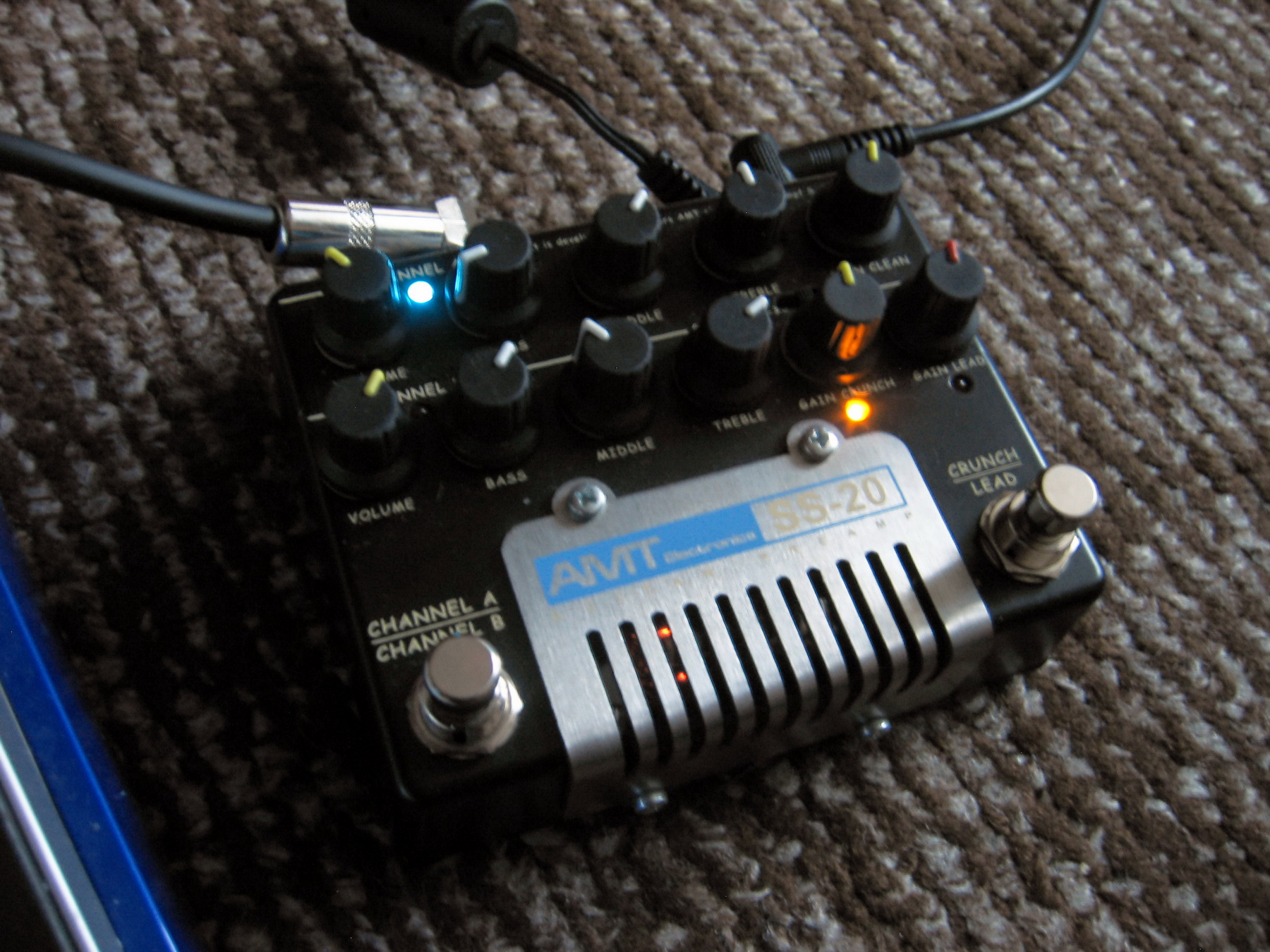 AMT SS-20 Preamp